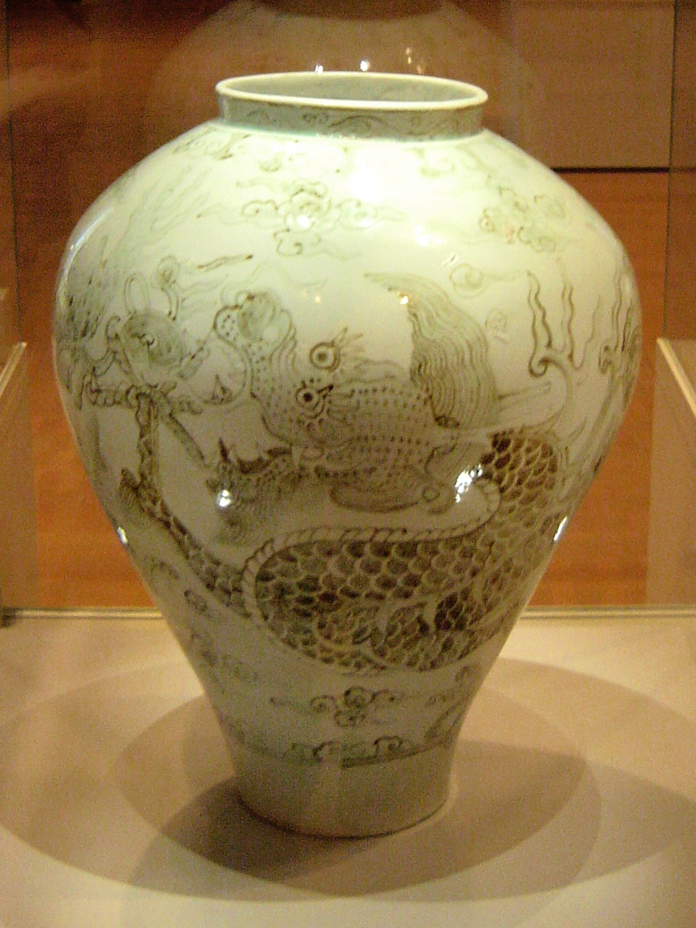 Joseon white porcelain with cloud and dragon patterns made during the mid Joseon dynasty of Korea. It has exhibited at National Museum of Korea in Seoul, South Korea